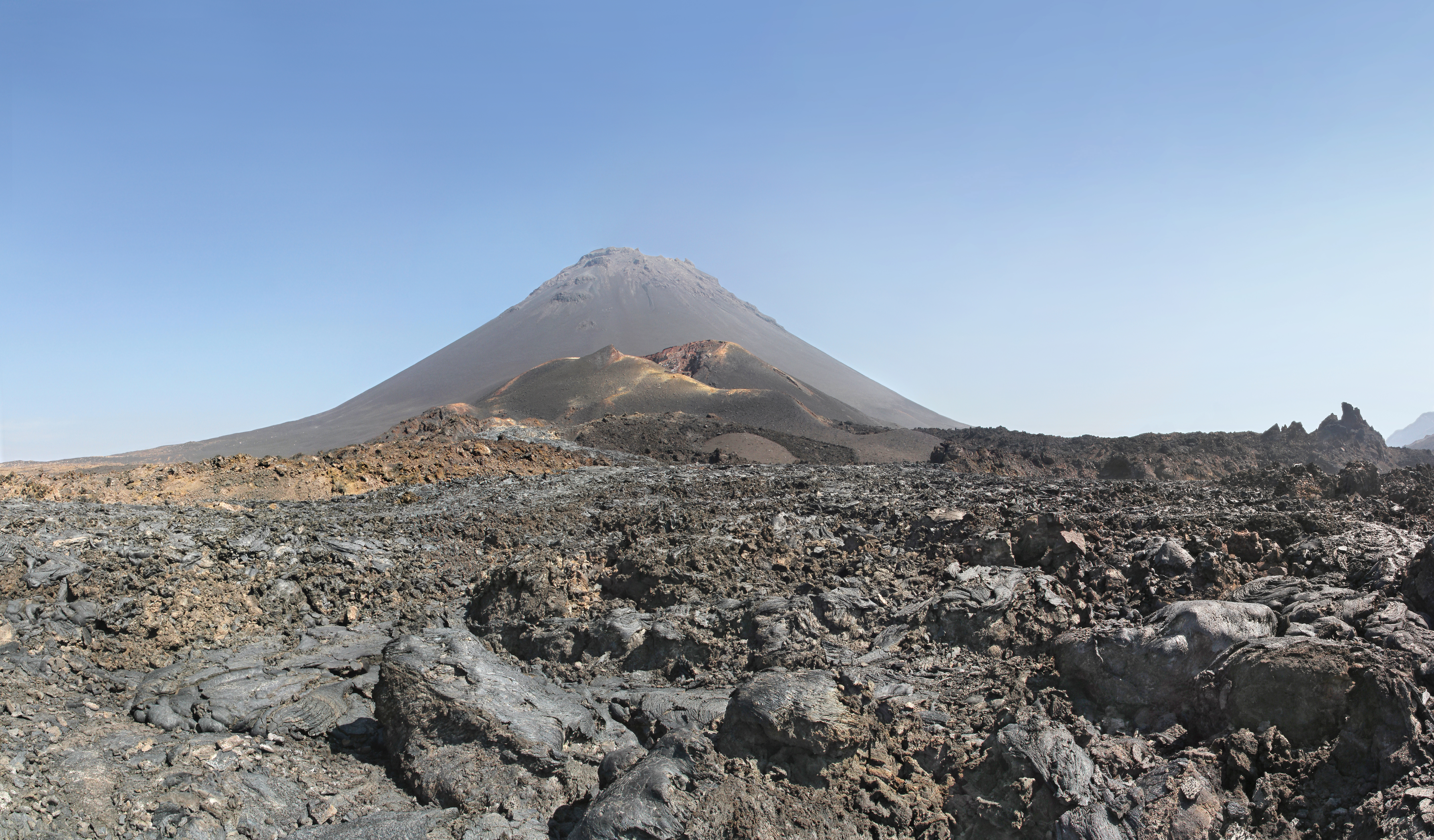 Pico de Fogo as seen from the west in caldera in 2010 December. The 2,829 metres high stratovolcano is located in Fogo, Cape Verde. In front of the high summit is a minor vent which erupted as recently as year 1995. The minor summit was formed due to this eruption. All the rock material from the foreground to the background is volcanic rock from different eruptions of the past.